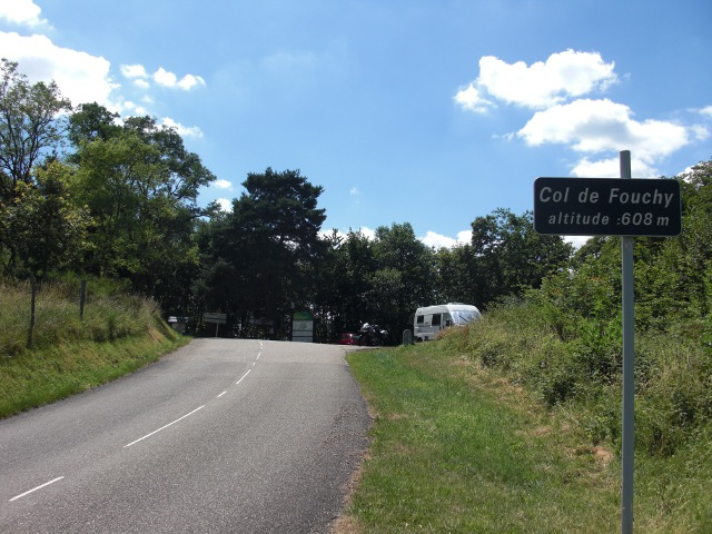 Col de Fouchy: Pass summit